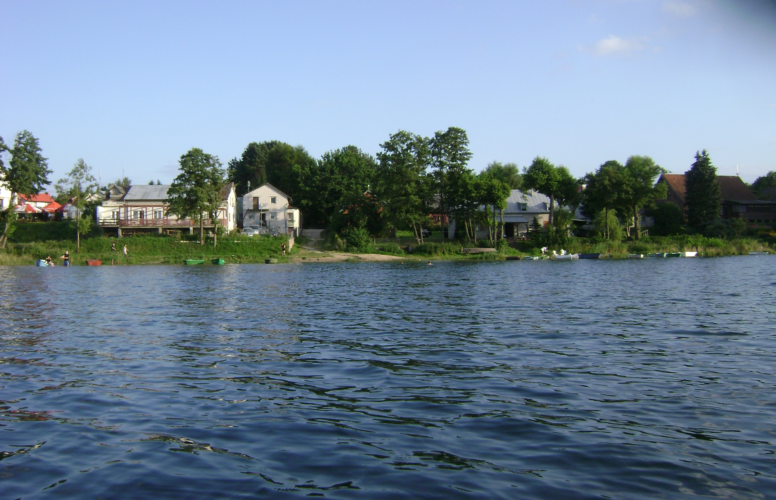 Narty Lake. Narty Village